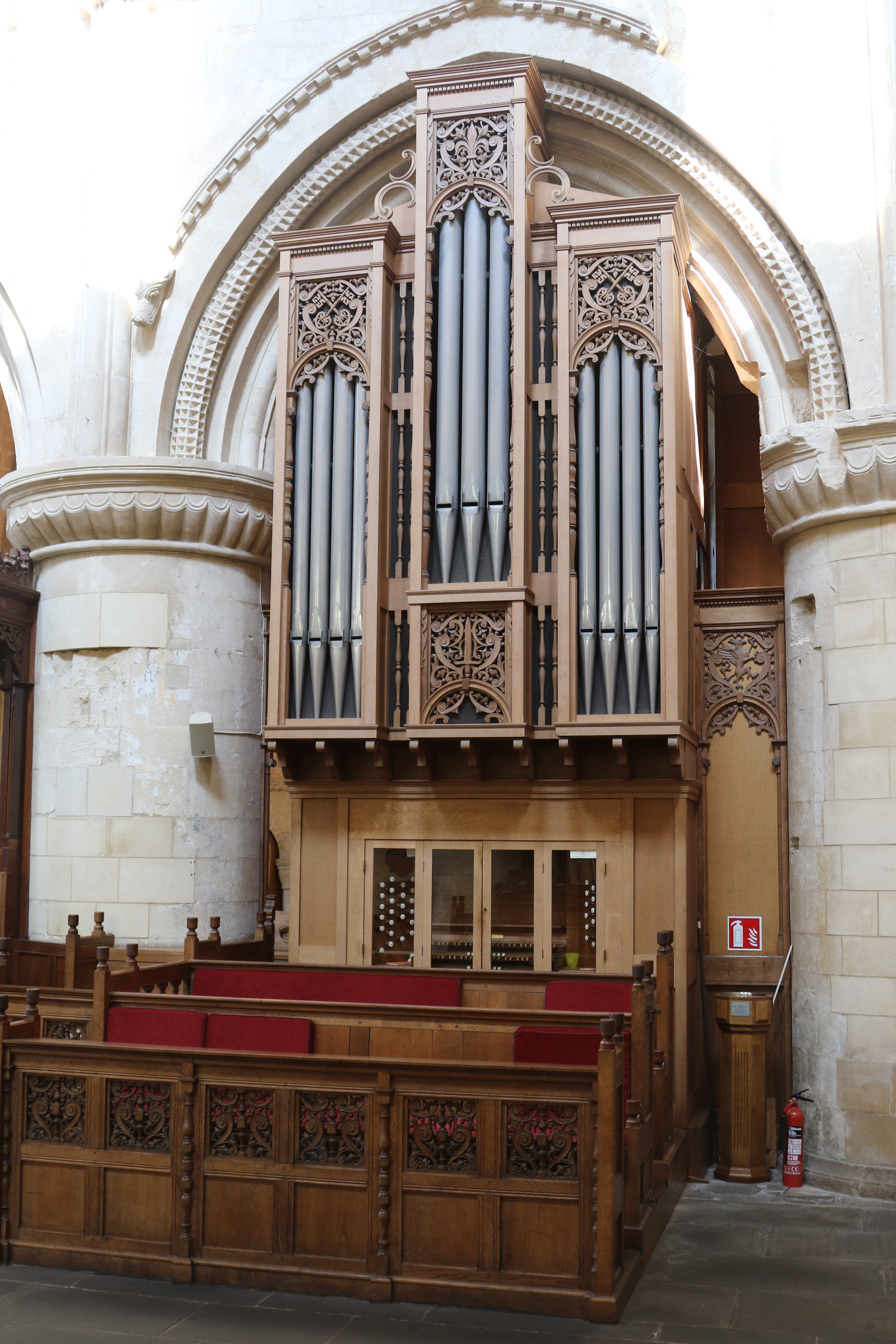 North side of the chancel